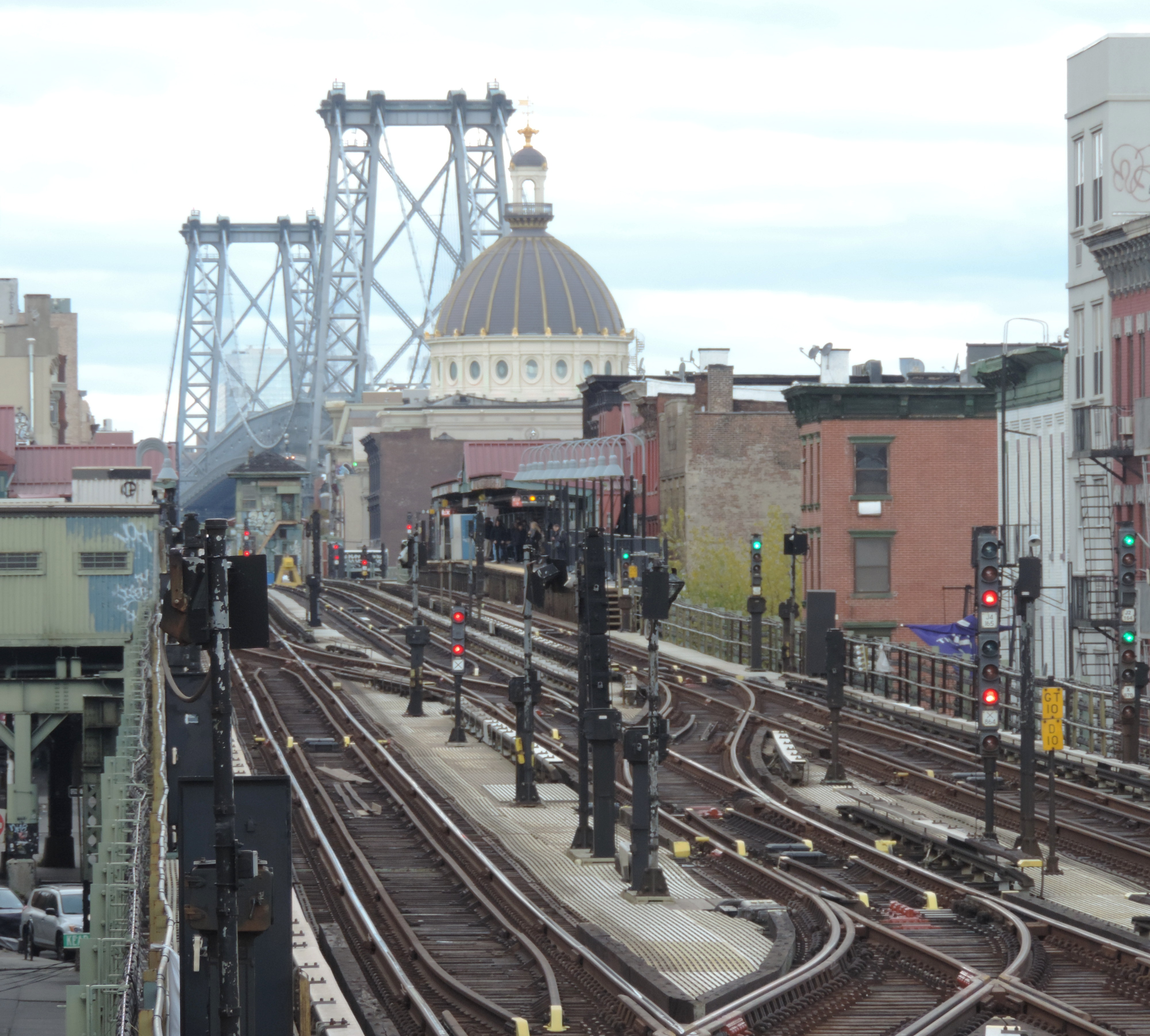 Looking west from the Hewes station to the Marcy station and bridge on a cloudy day.